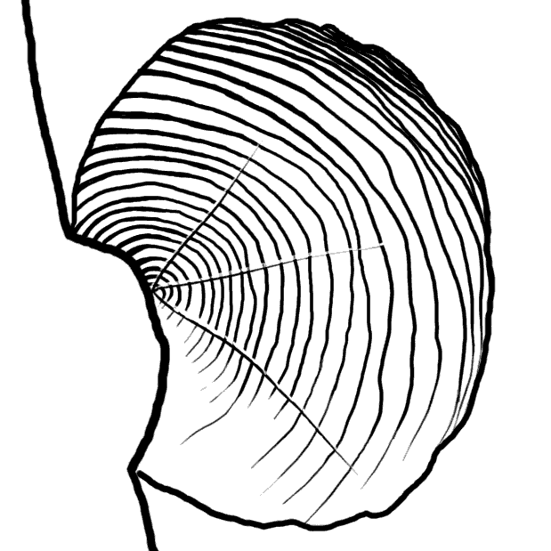 Clactonian notch